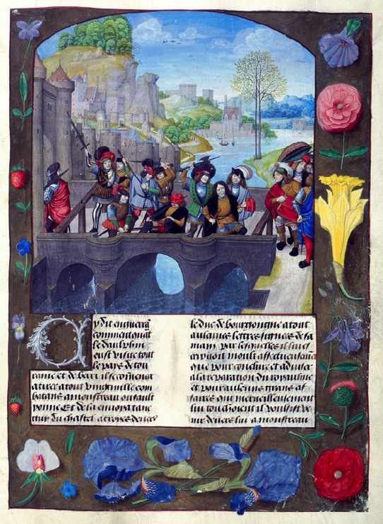 Manuscript of Book of Monstrelet's Chronique showing the assassination of John the Fearless. Manuscript held at the University of Leiden.